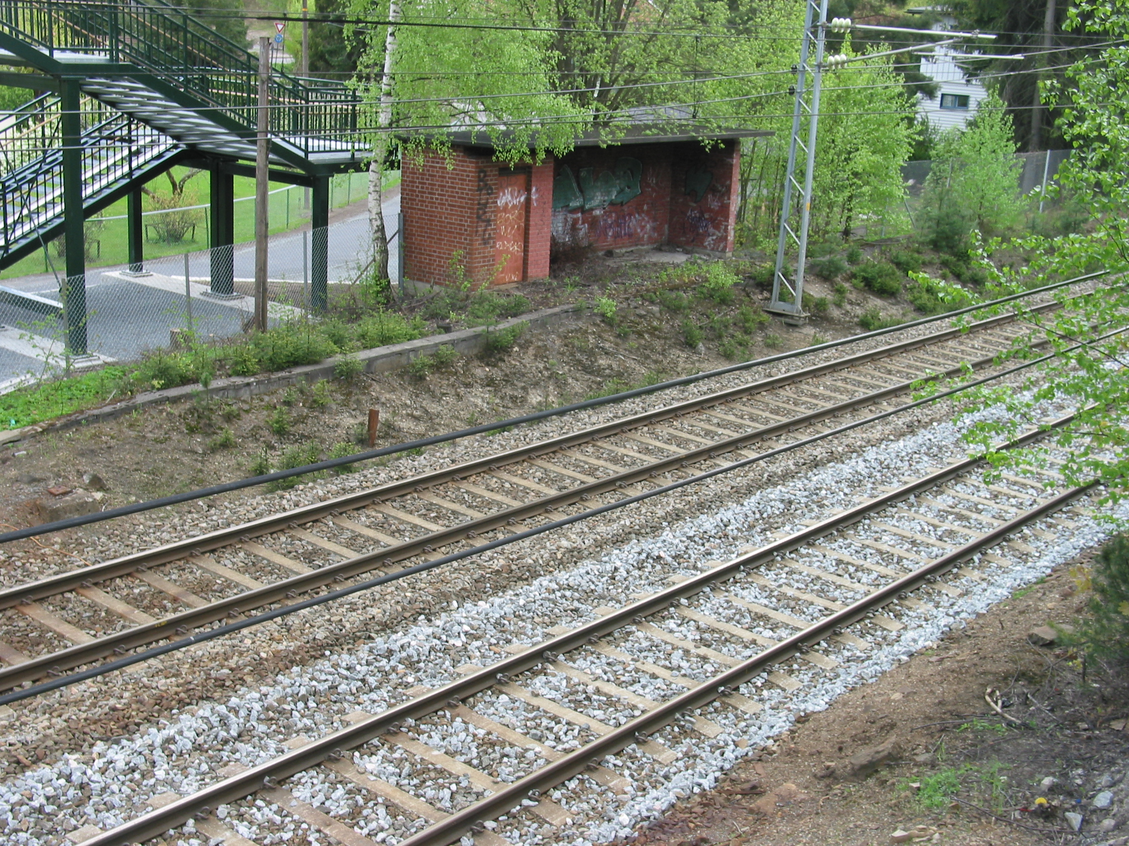 Strand station, defunct station on the Drammen Line.